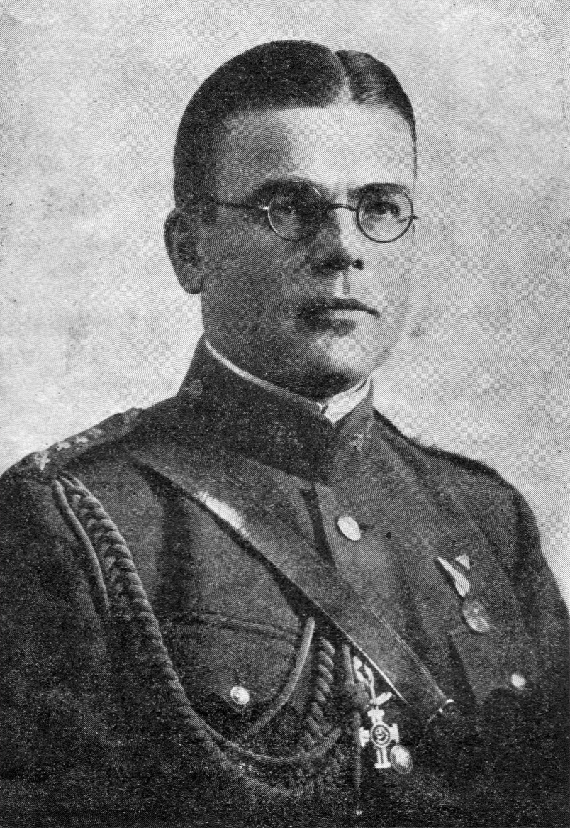 Colonel Hugo Kauler. Inspector of artillery, commander of 1st Artillery Regiment during the Estonian War of Independence.